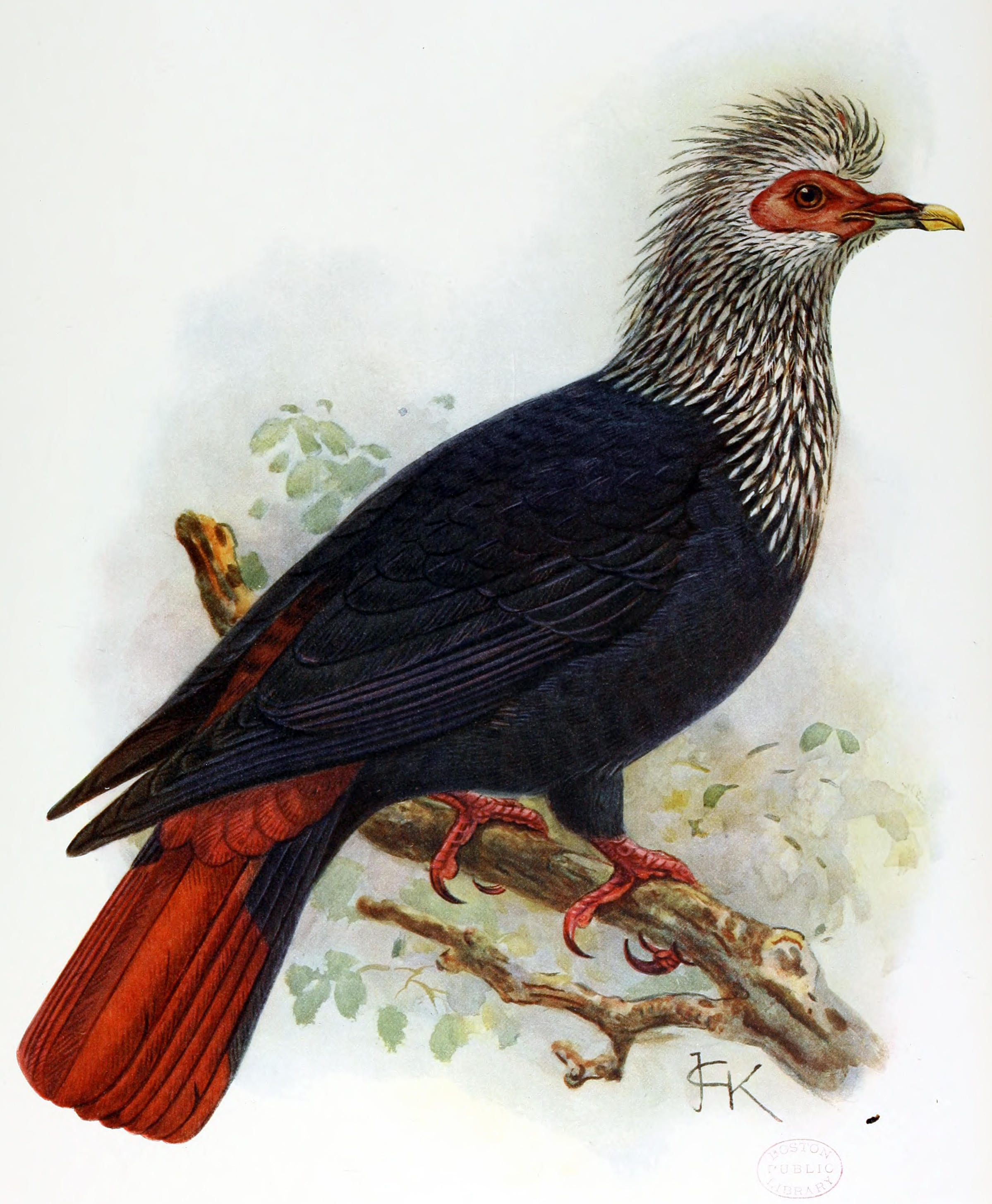 Alectroenas nitidissima Chromolithograph (37 x 27.5 cm), specimen in Paris.[1]